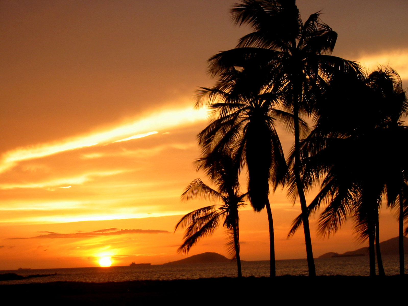 This was taken with a Powershot A40 outside the Subway on Plaza Colón, Puerto La Cruz, Venezuela